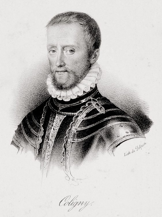 Portrait of Gaspard II de Coligny, French admiral